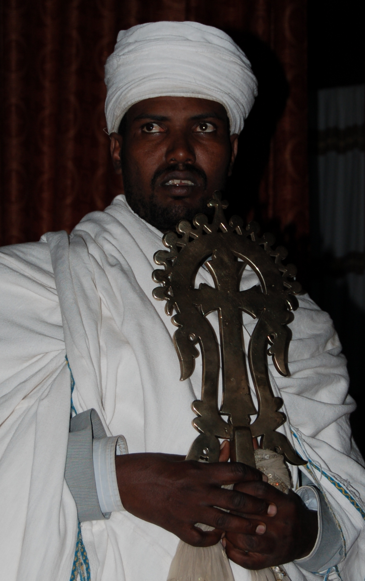 Photo taken in the Bet Medhane Alem church, Lalibela, Ethiopia, with priest's permission.